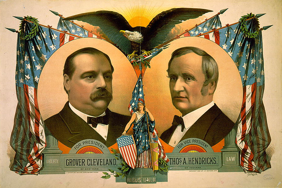 Campaign poster showing head-and-shoulders portraits of Grover Cleveland and Thomas A. Hendricks, surrounded by flags.